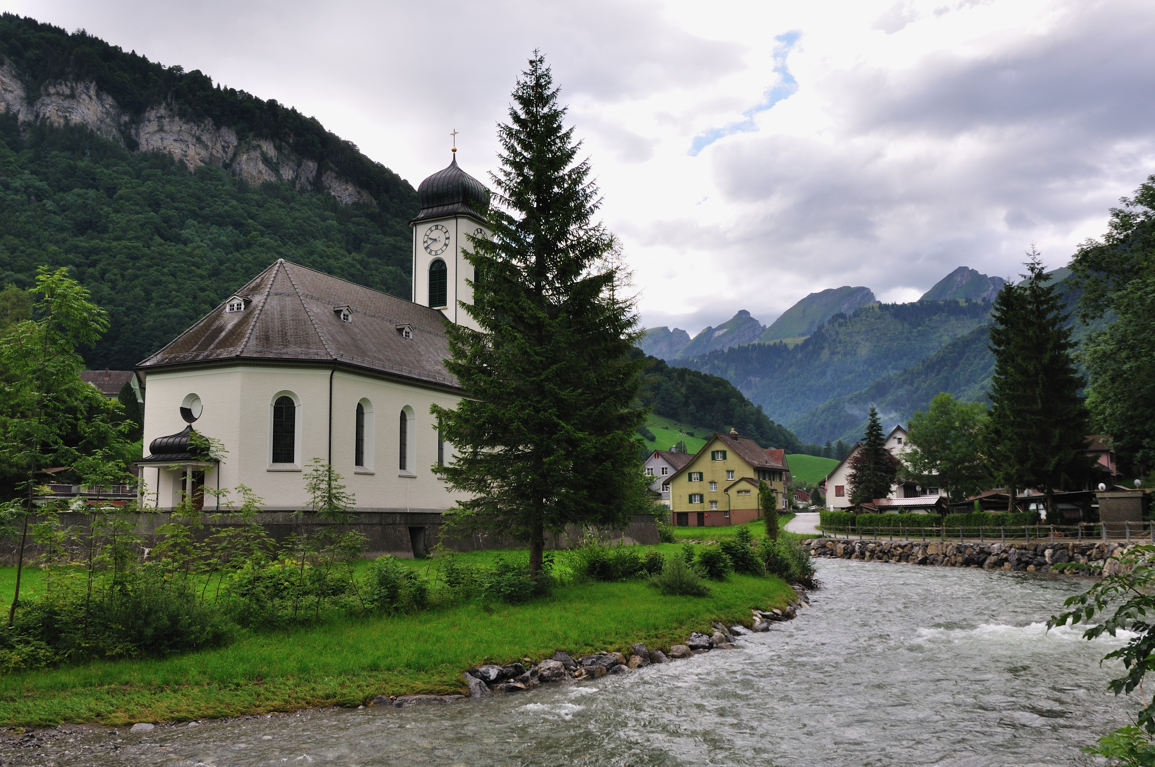 Switzerland, Canton of St. Gallen, hike along the river Thur